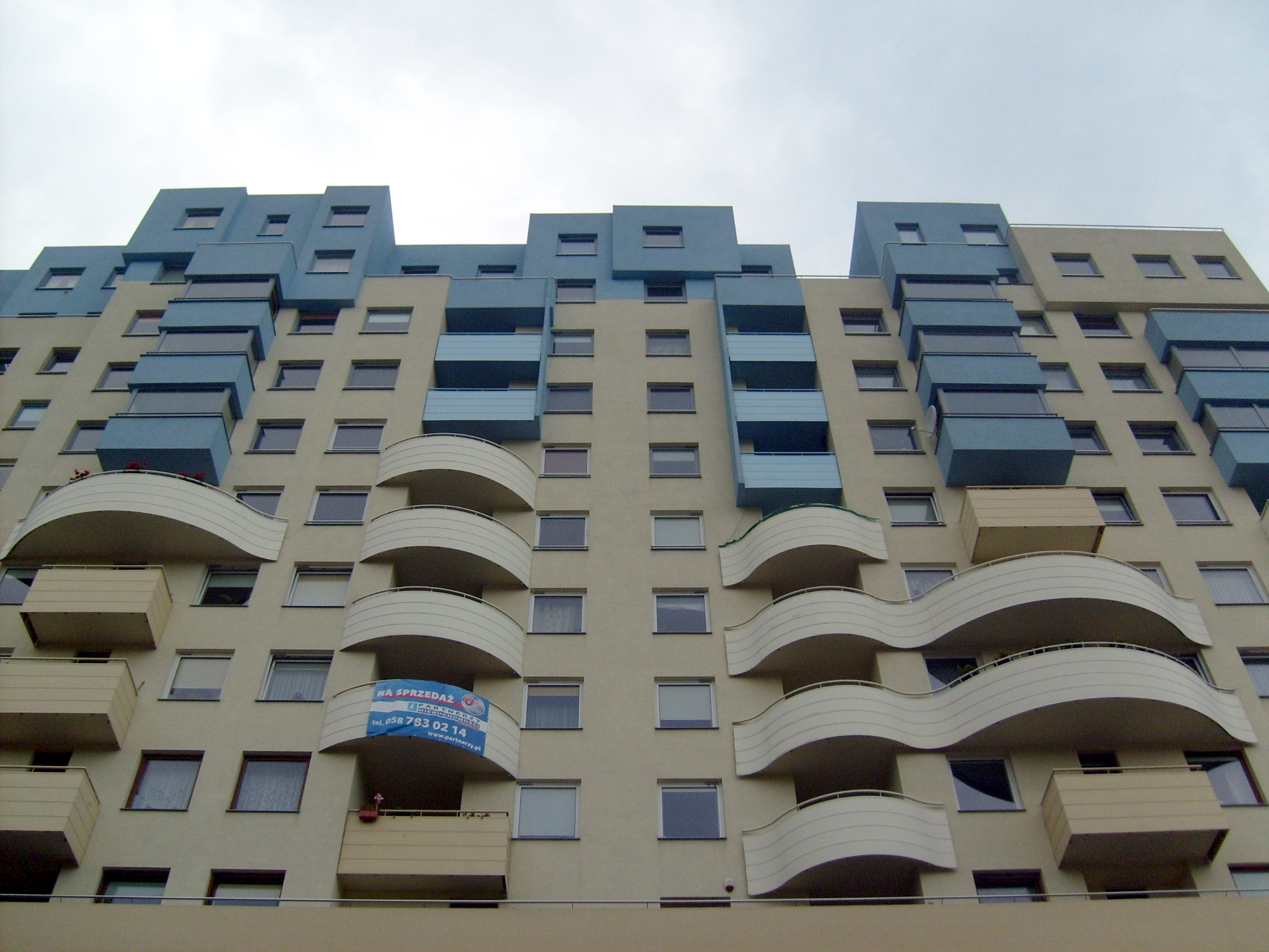 The front of Centrum Rodzinne (Family Center) Witawa.